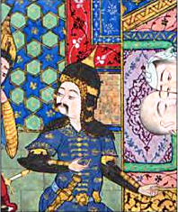 Painting of Bahram in The Shahnama of Shah Tahmasp